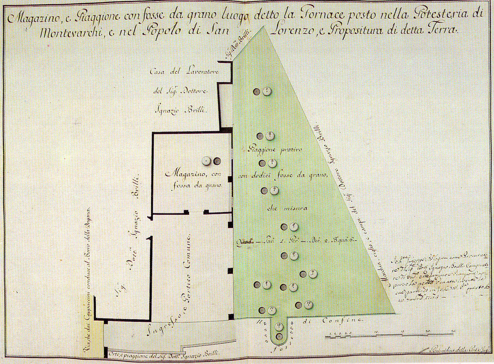 La Fornace Farm in Montevarchi owned by the Grand Duke of Tuscany